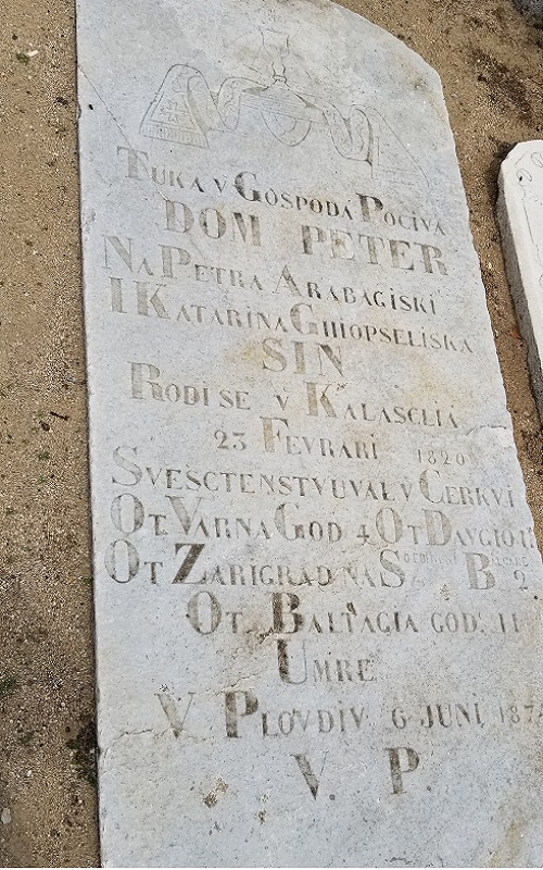 Petar Aragadzhijsi Memorial in Rakovski